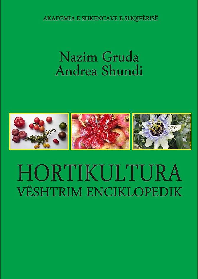 Book cover of Hortikultura, nje veshtrim enciklopedik